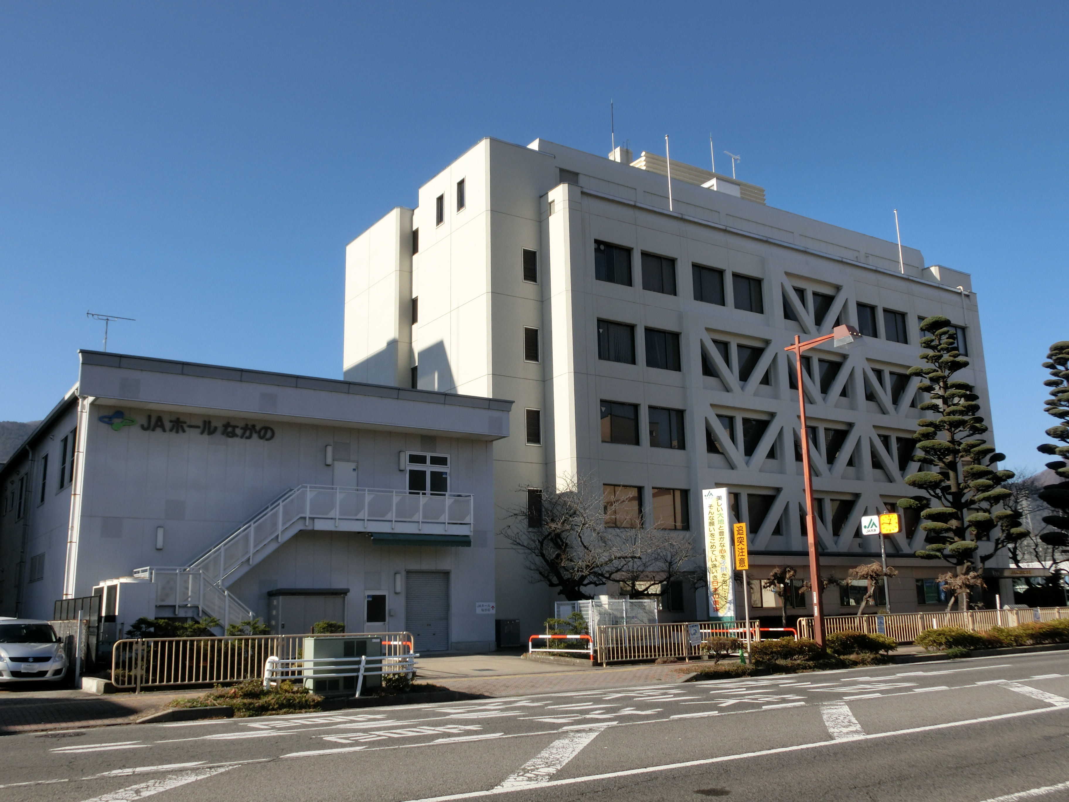 JA Nagano Headquarters